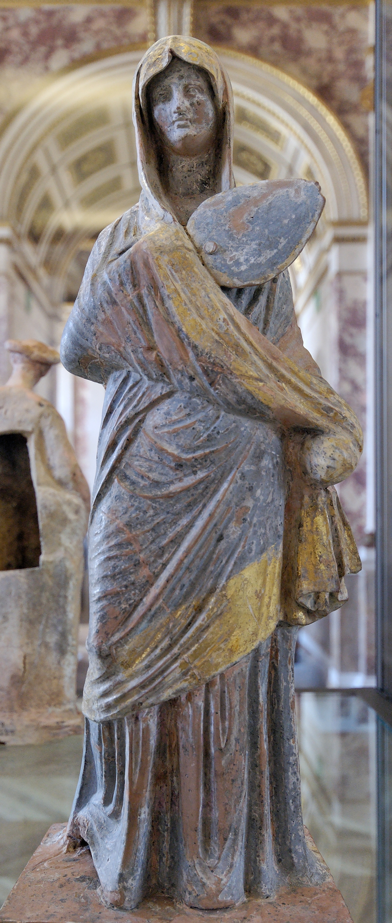 Figurine of the type of the Large Herculaneum Woman. Gilt and painted terracotta, Tanagran artwork.